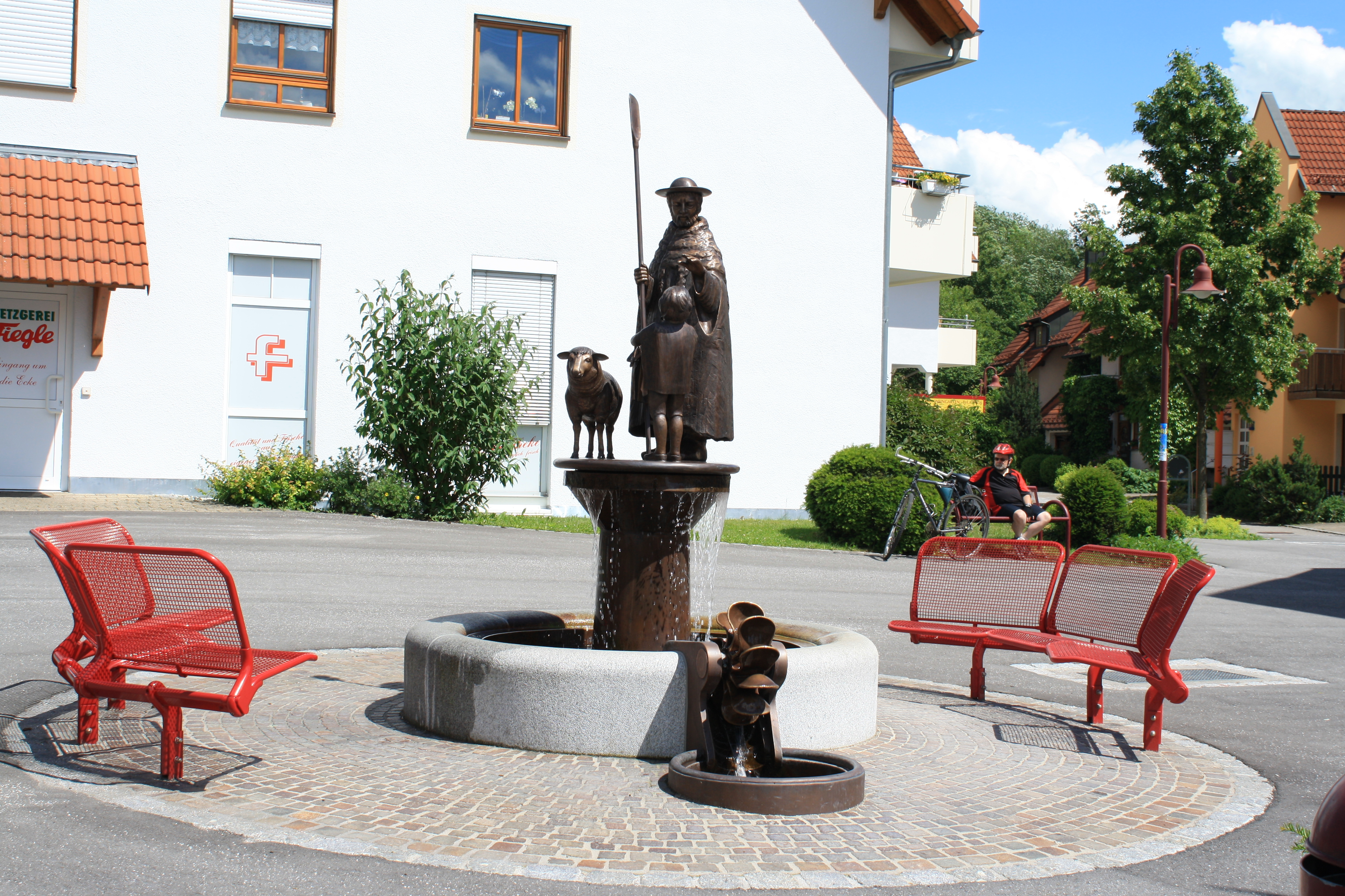 The village fountain of Schlier